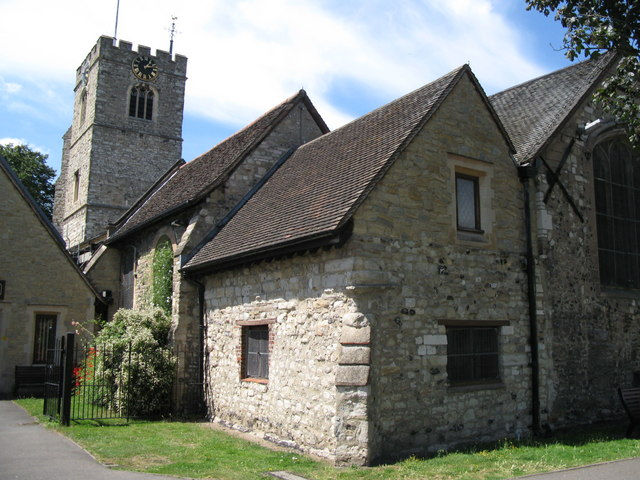 St Margaret's Church. See 912683. The church was not demolished with the abbey after 1539 as it was by then Barking's parish church.